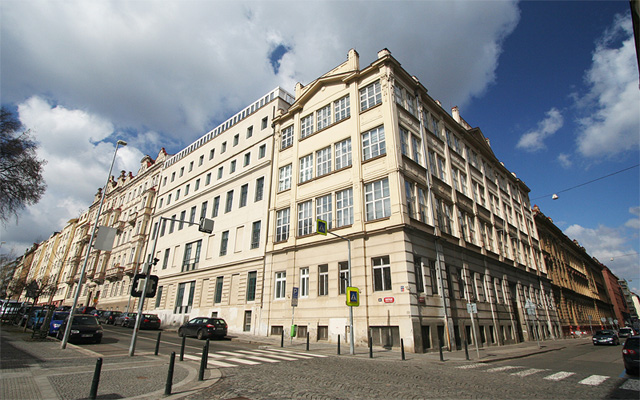 ARCHIPs faculty of architecture.